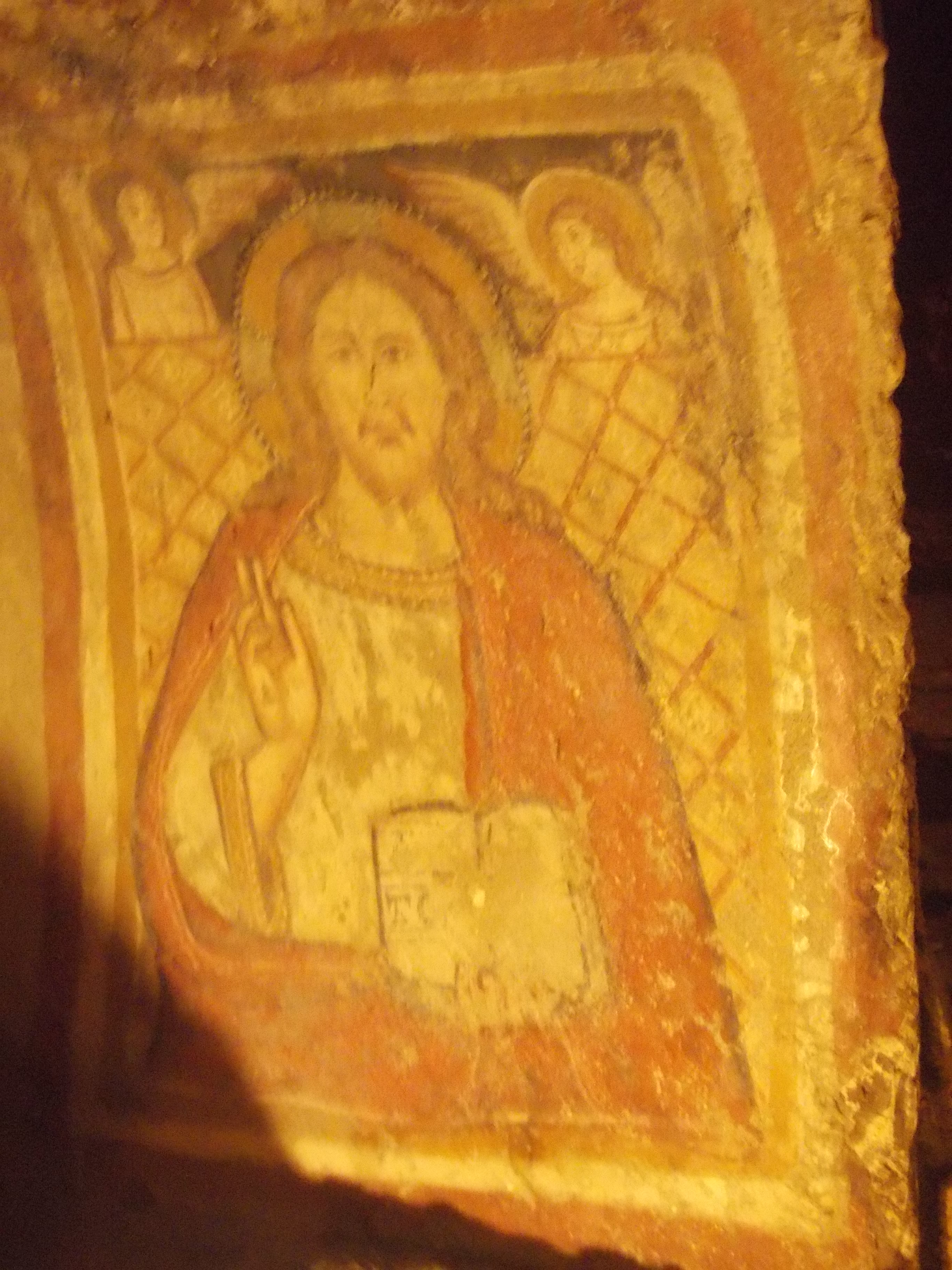 Christ painted onto a wall, in S. Savinilla's catacomb in Nepi, near Rome